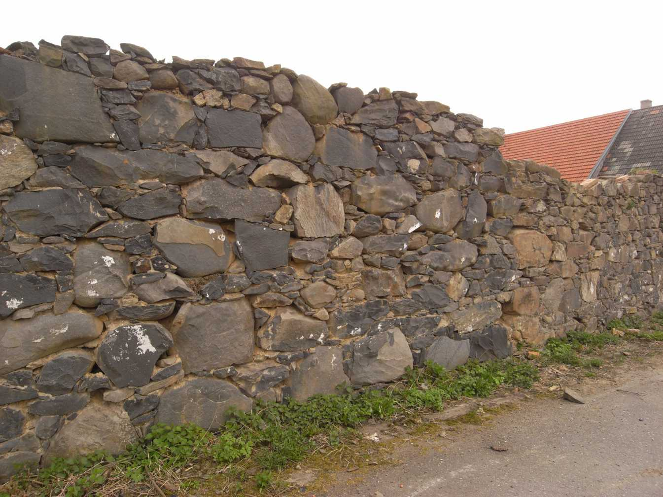 Železné hory, Fieldstone wall of a traditional farm (Czech Republic)